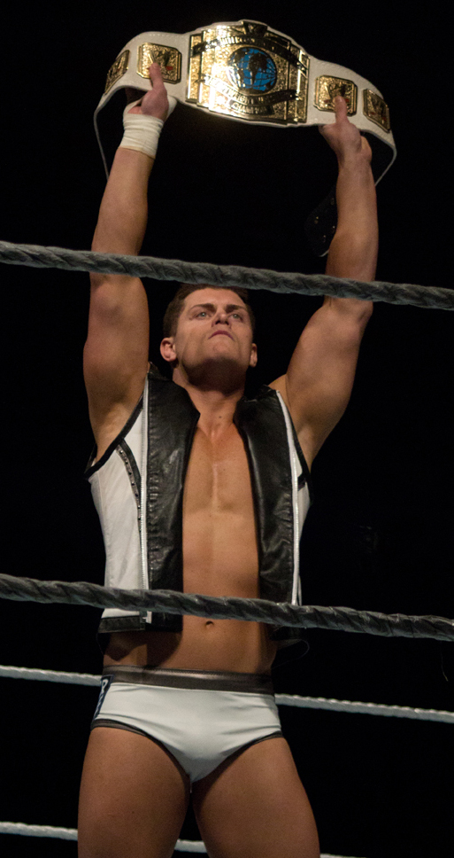 Cody Rhodes as WWE Intercontinental Champion. Taken January 7, 2012 during a WWE SmackDown live event in Montgomery, Alabama.